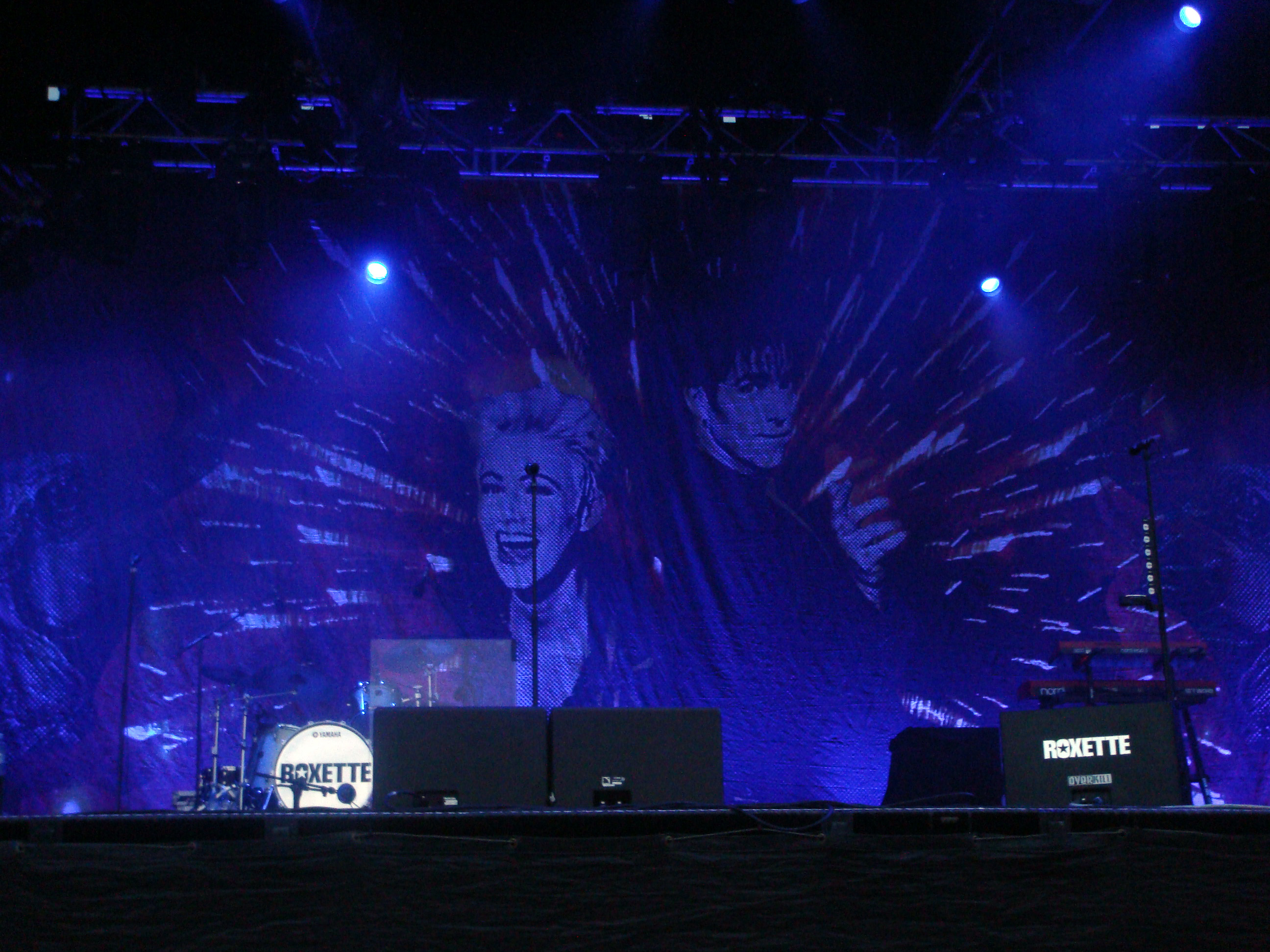 Scene decoration of Roxette's live show in Halmstad on 14 August, 2010